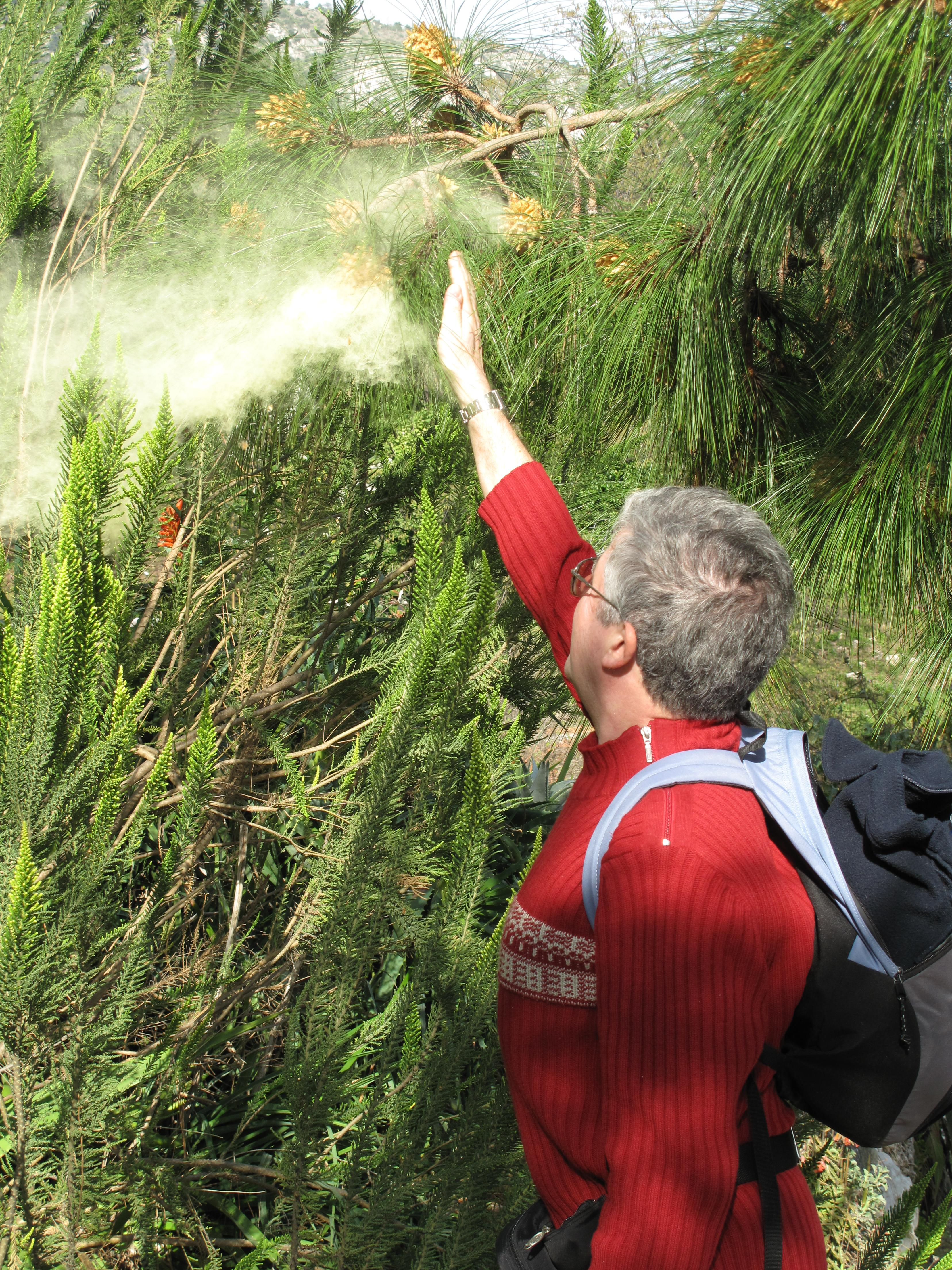 Pollen from pine tree in the garden of Val-Rameh in Menton (Alpes-Maritimes, France)